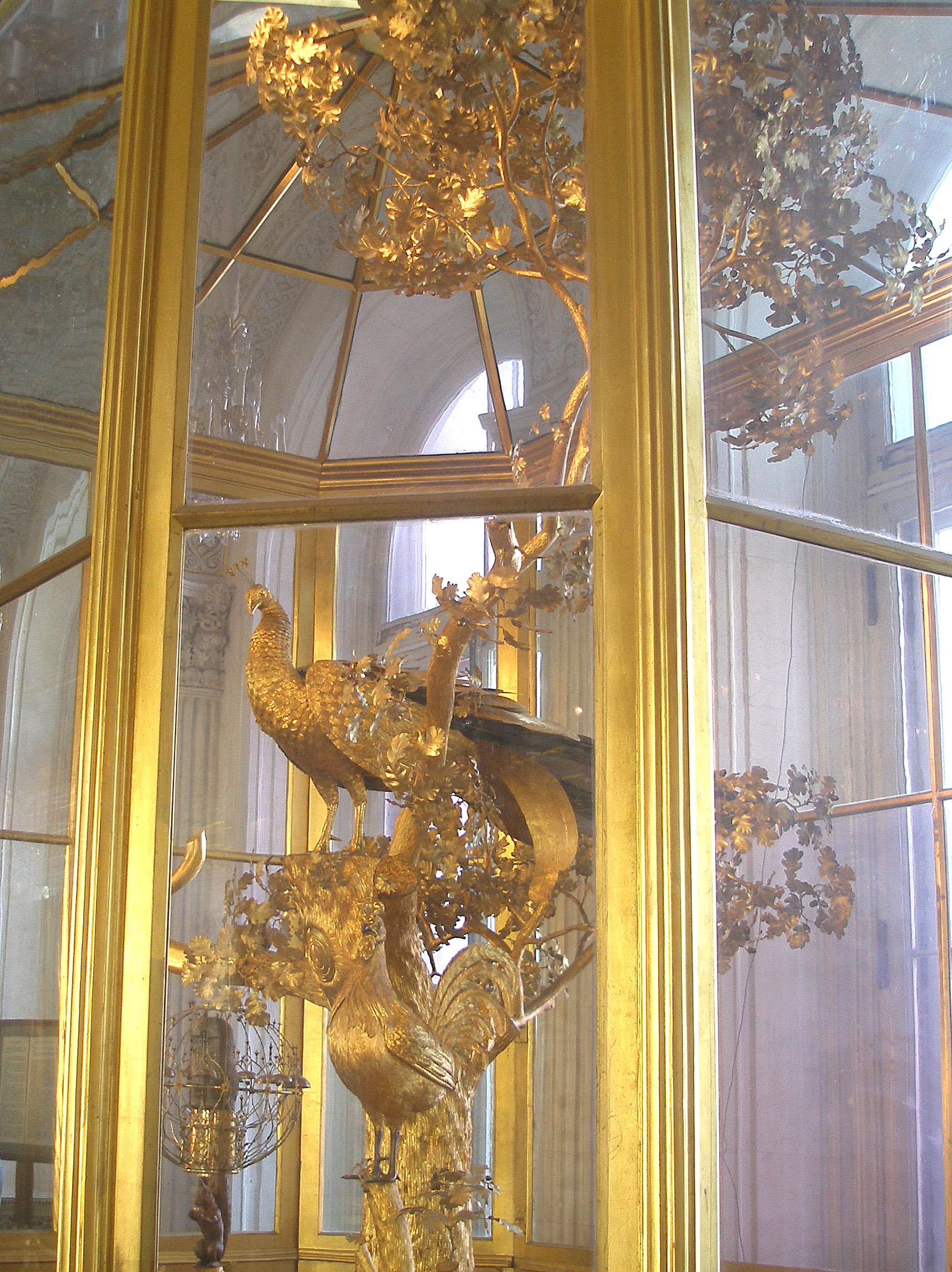 Peacock Clock at Hermitage museum (St.-Petersburg, Russia)